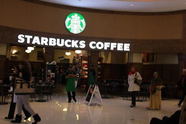 StarBucks Morocco Mall